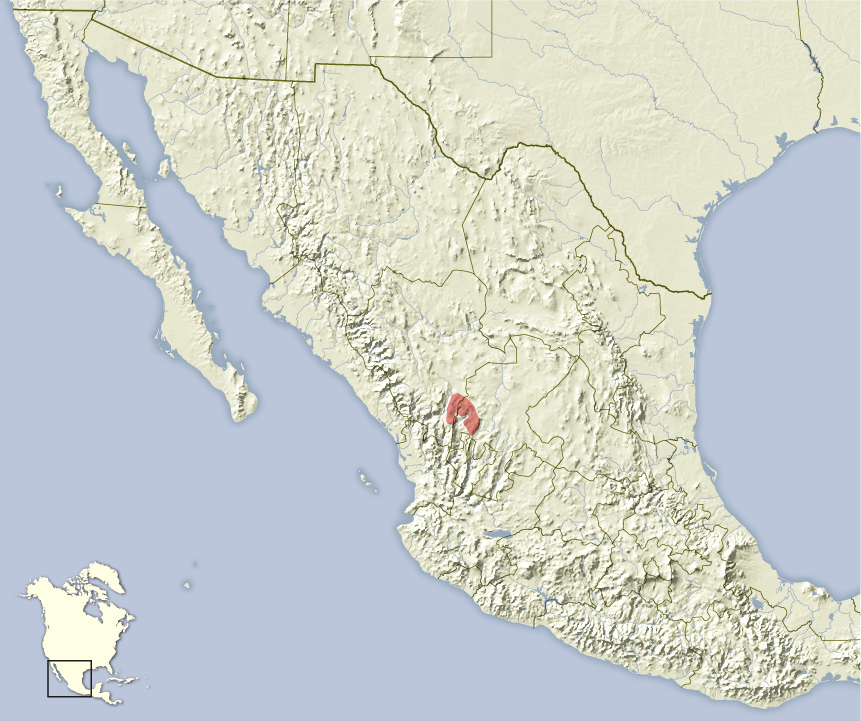 Distribution map of Buller's chipmunk